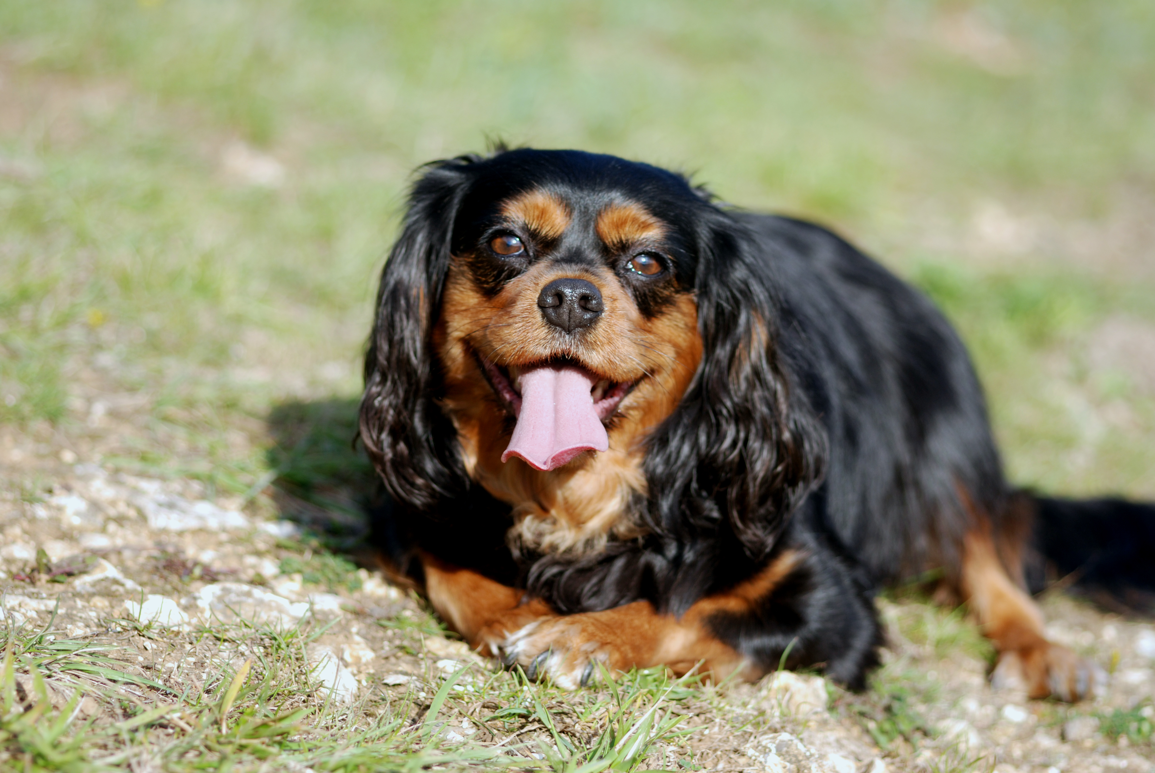 Box Hill Oct 2007